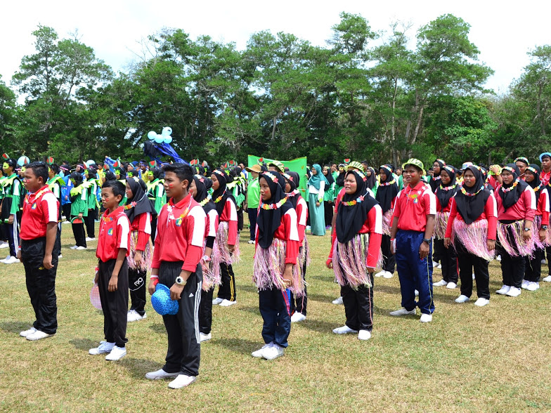 SUKAN 13